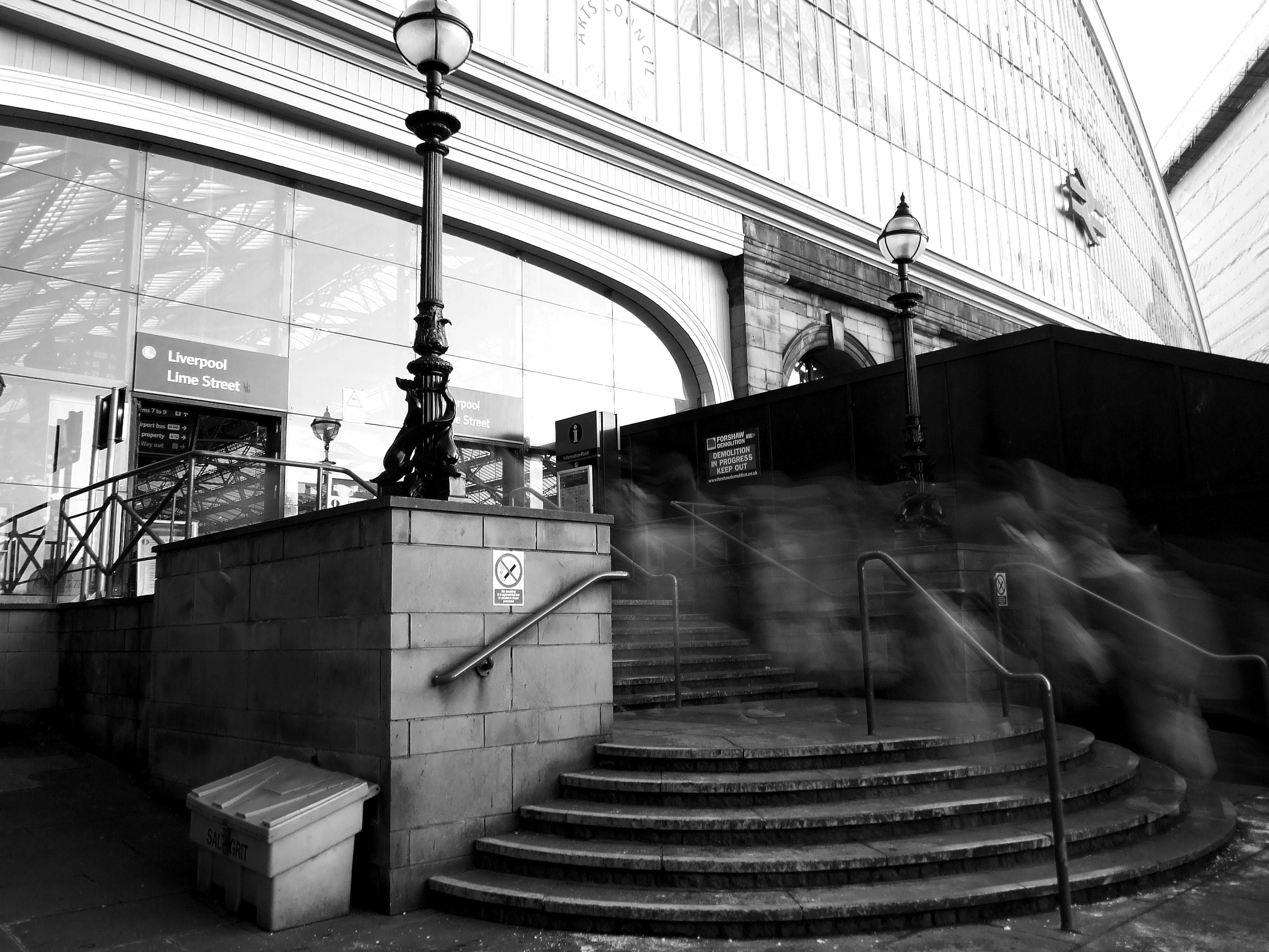 Inspired by the work of alexey titarenko and with my new ND64 filter in hand (or on lens) I headed for the busiest set of steps I could photograph.........But this one works a lot better. Best viewed large and on black